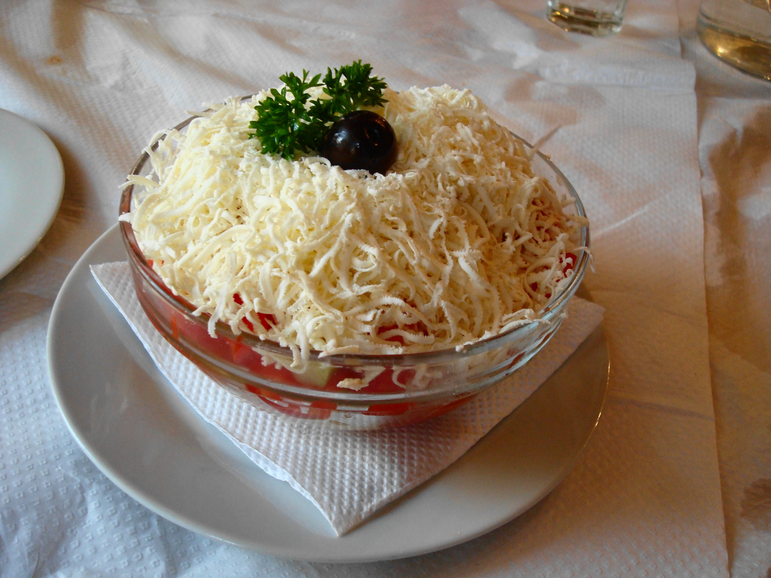 Shopska salad in Bitola, Macedonia.